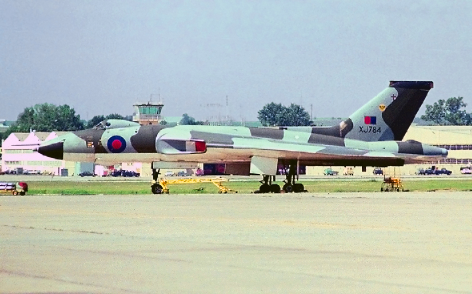 RAF Vulcan XJ784 at Offutt AFB, Omaha, Nebraska.